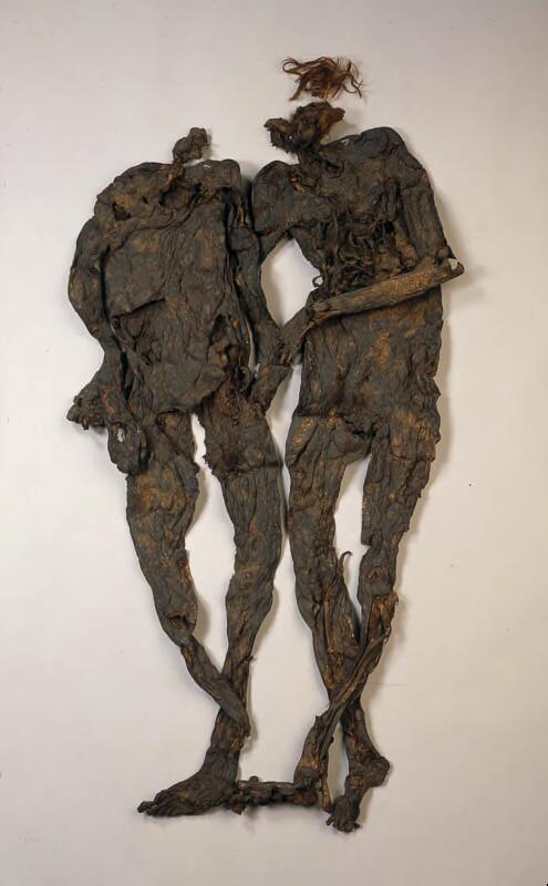 Remains of the Weerdinge Men. Both bog bodies were discovered by Hilbrand Gringhuis while turfing in Weerdingerveen, Province Drenthe, Netherlands on 29 June 1904. Both Men were deposited on the bog between 200 and 400 A.D.